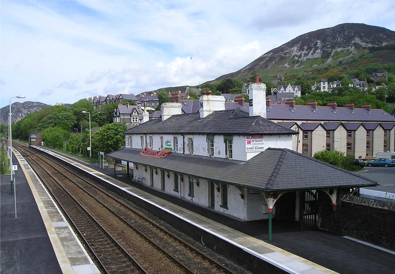 Penmaenmawr railway station May 2006. The station building is in private use.